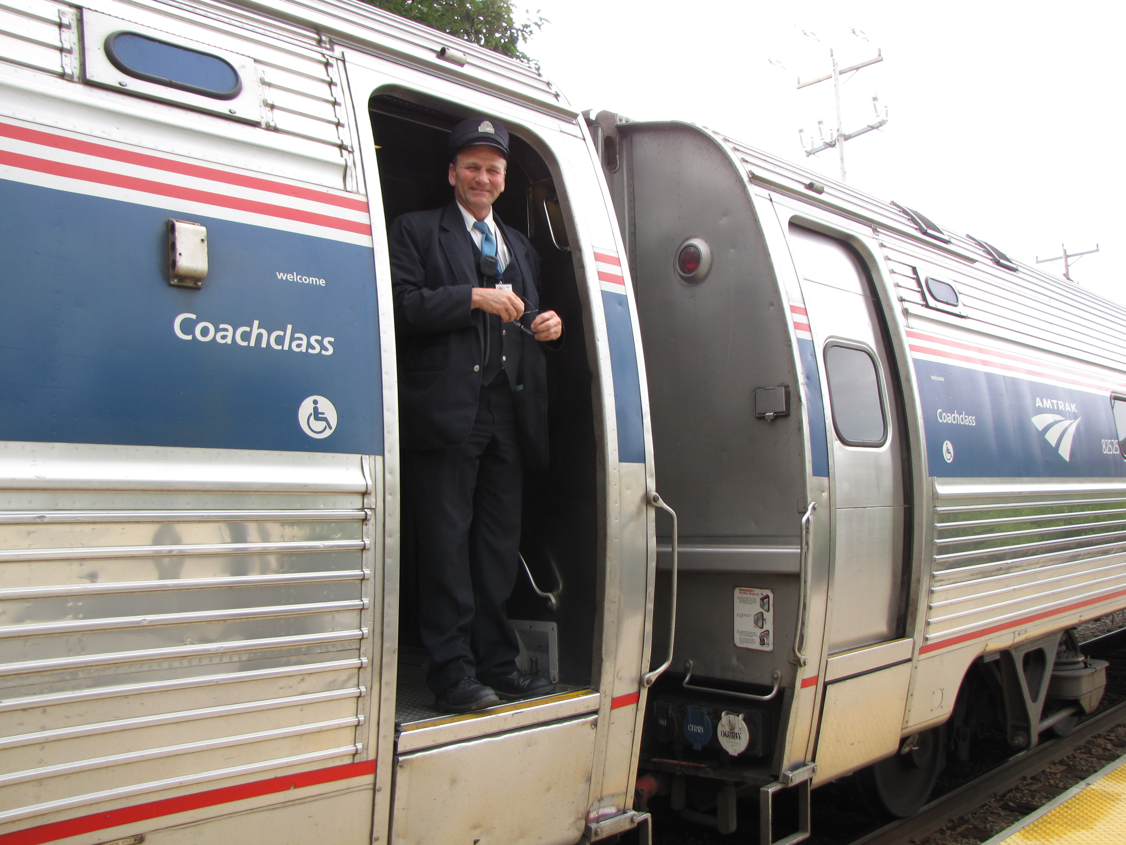 Amtrak Downeaster conductor standing in Amfleet car doorway, as the Downeaster train leaves Durham, New Hampshire.